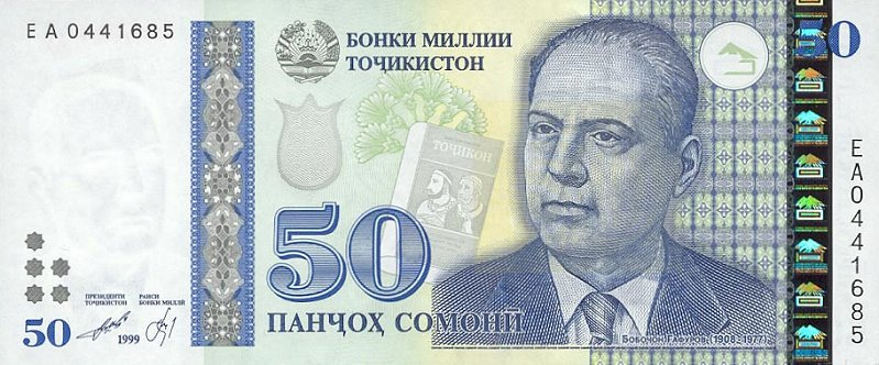 50 сомонӣТоҷикӣ: 50 сомонии тоҷикистонӣ (тоҷикӣ), соли 1999